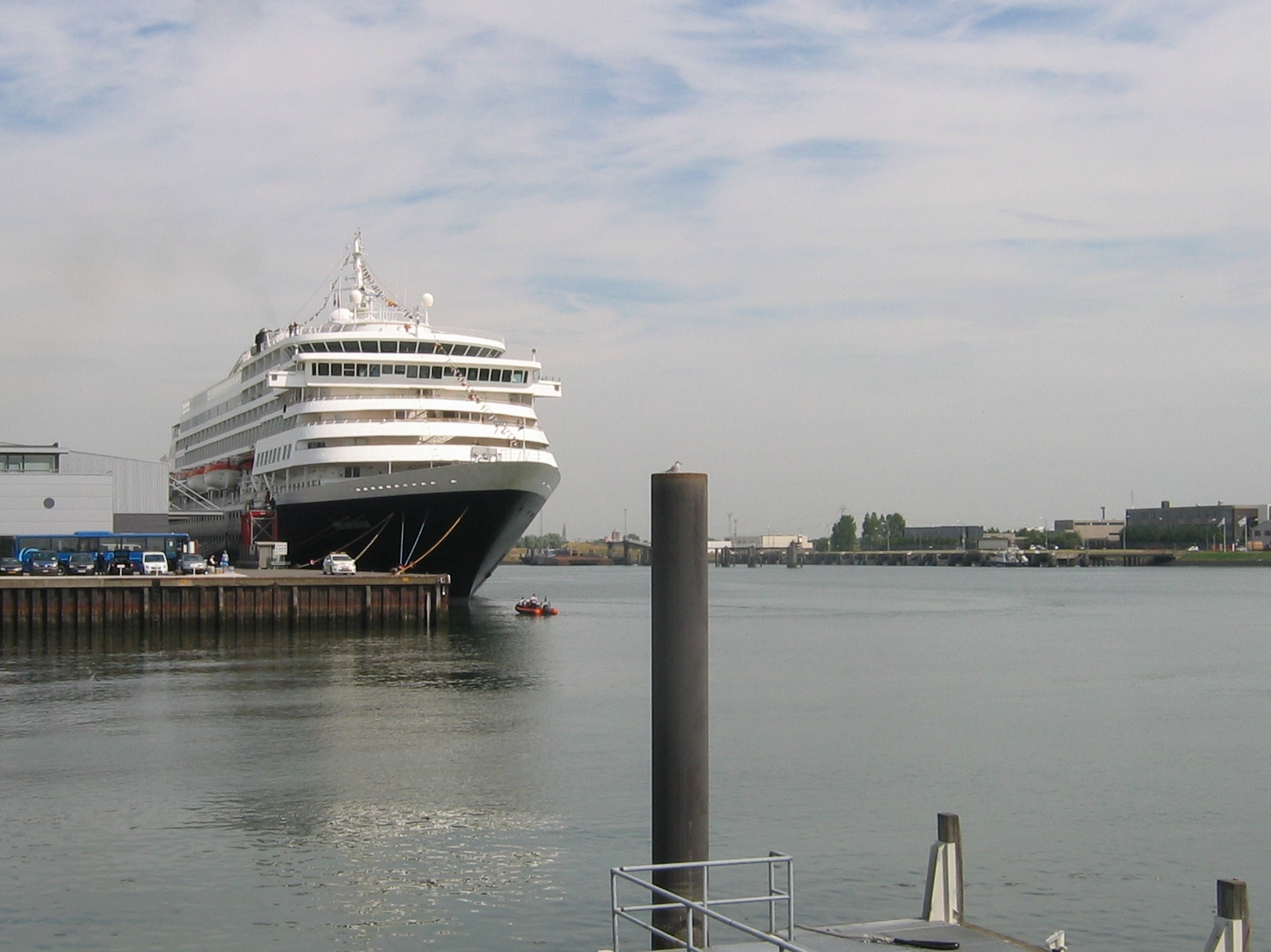 Prinsendam in Flushing harbour